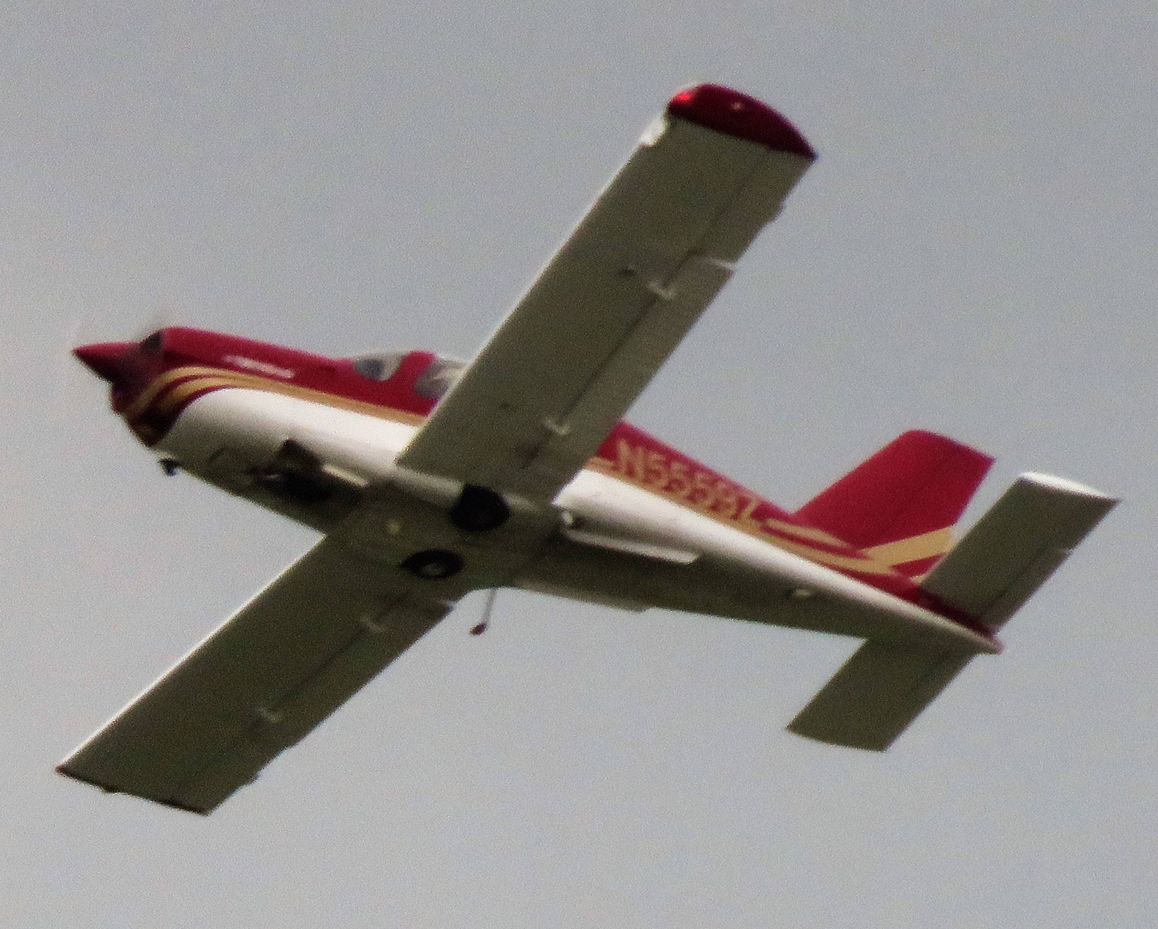 Socata TB-20